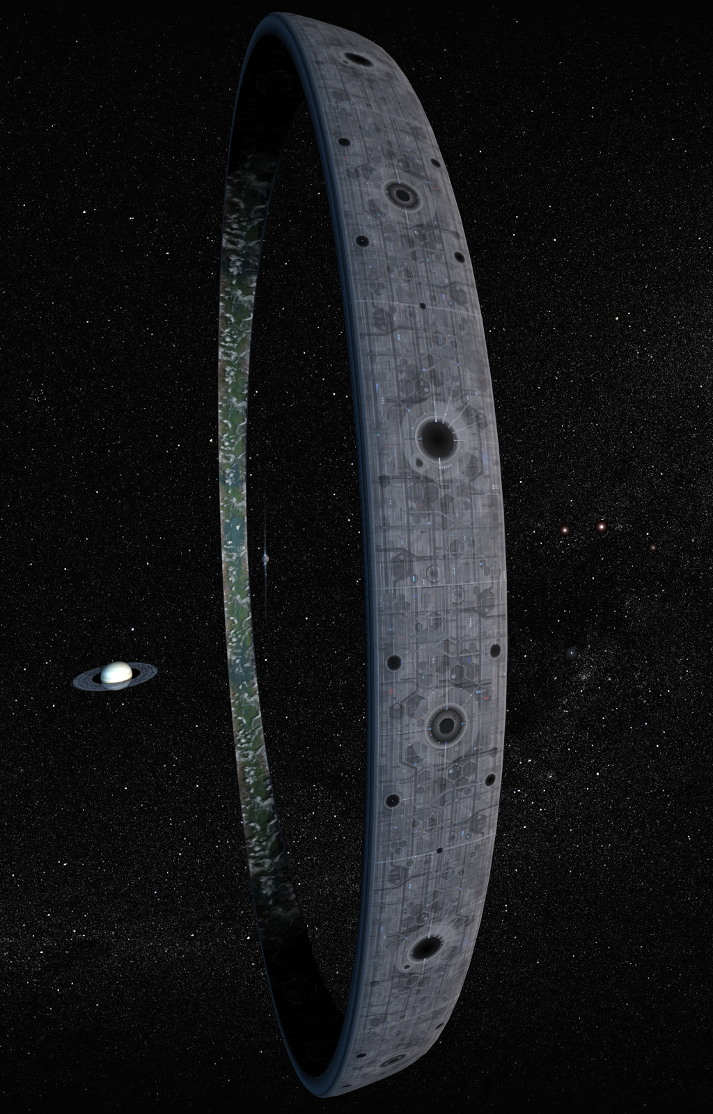 A 3D model of a Culture's orbital